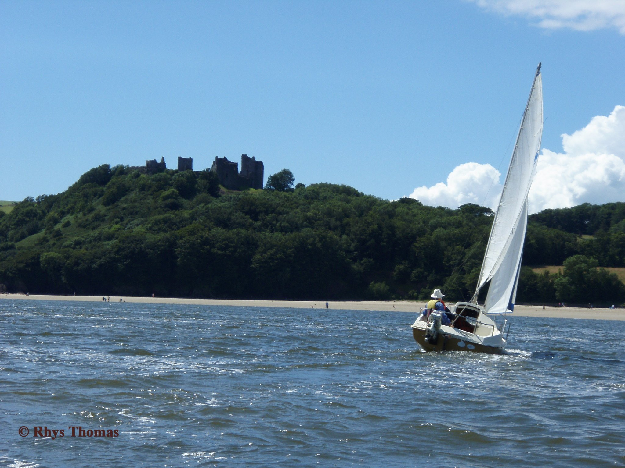 Llansteffan Castle Taken From the River Towy in July 2008.